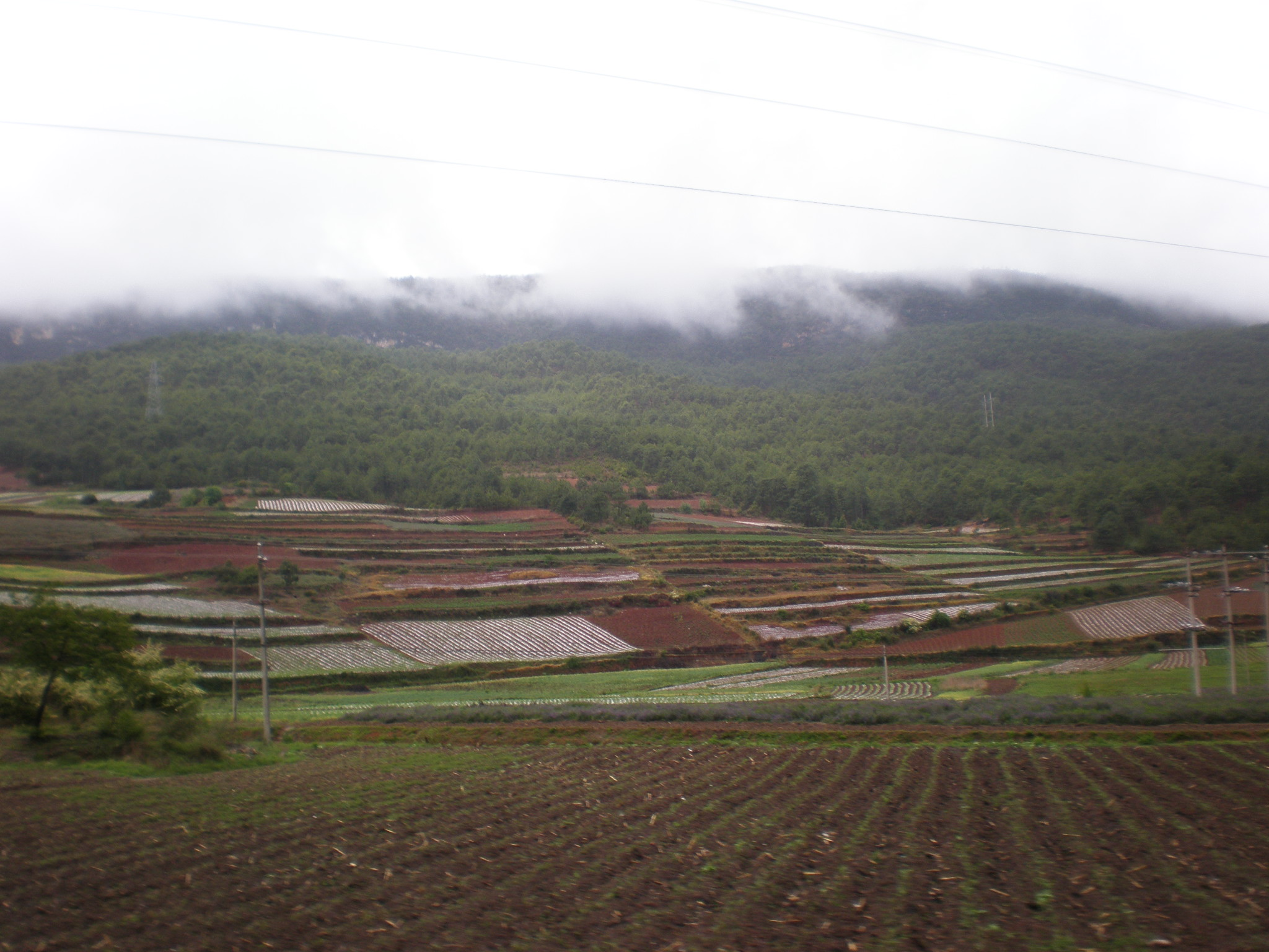 Farmland in Yunnan seen while traveling from Shangri-La (formerly Zhongdian) to Dali. Exact area unknown.